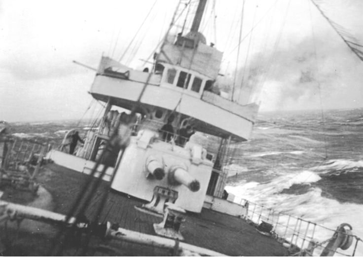 Swedish armoured cruiser HMS Fylgia.